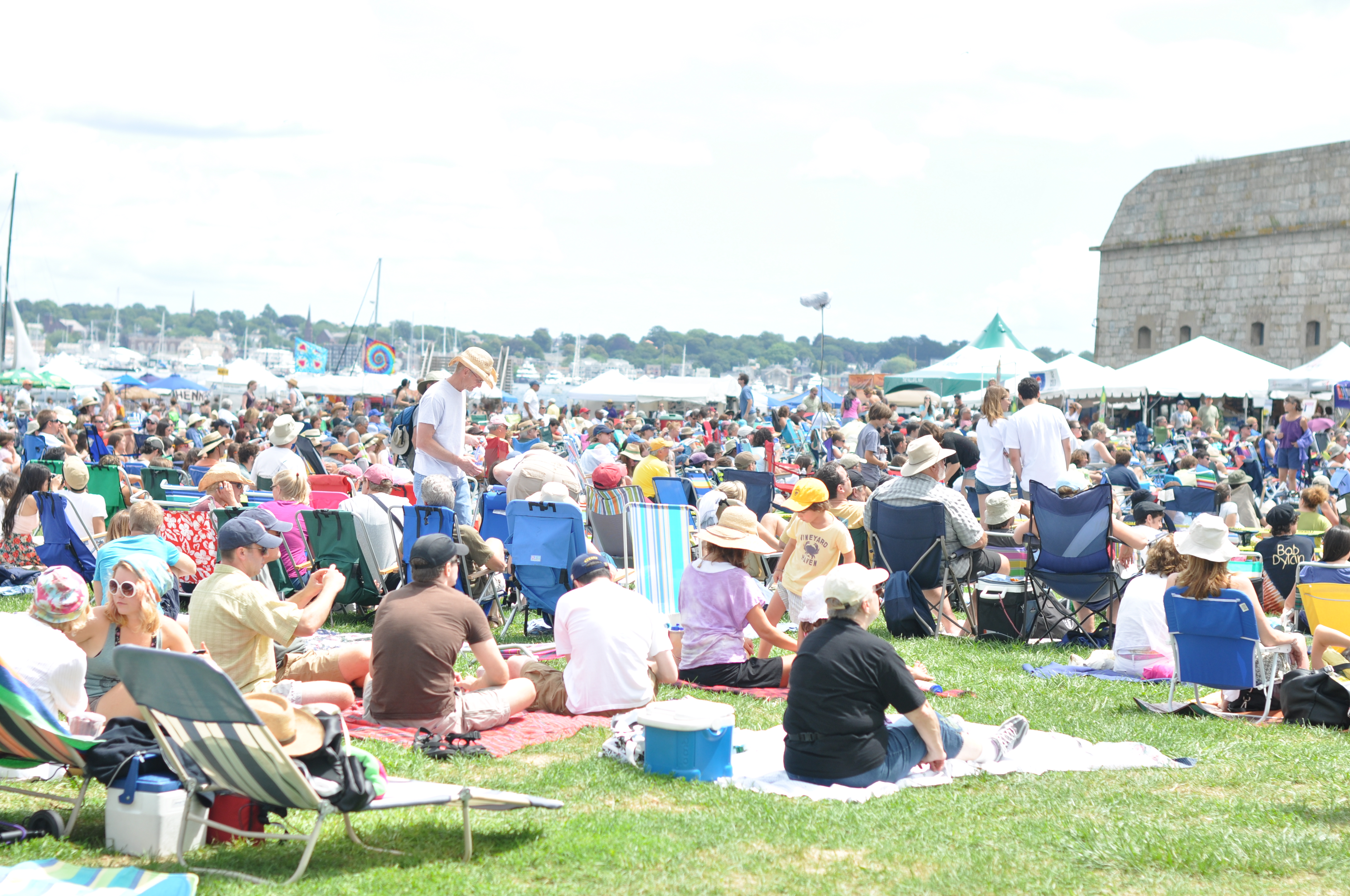 Crowd at Newport Folk Festival in Newport, Rhode Island USA on July 31, 2010.